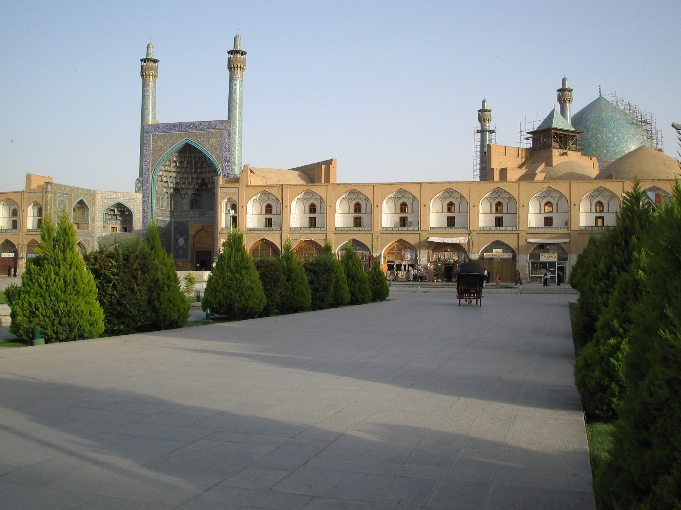 Masjed-e Shah from the Meydan, Esfahan, Iran.